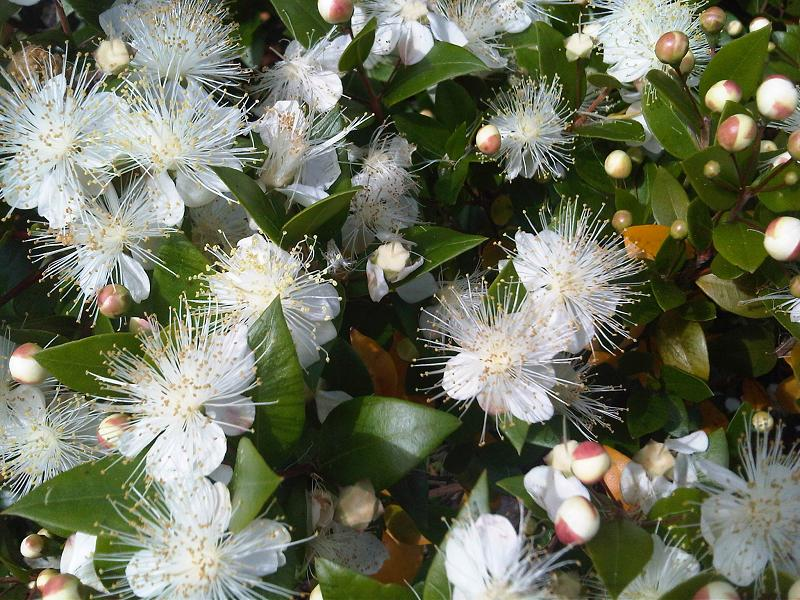 Myrtus communis flowers in Kew Gardens, London, England.